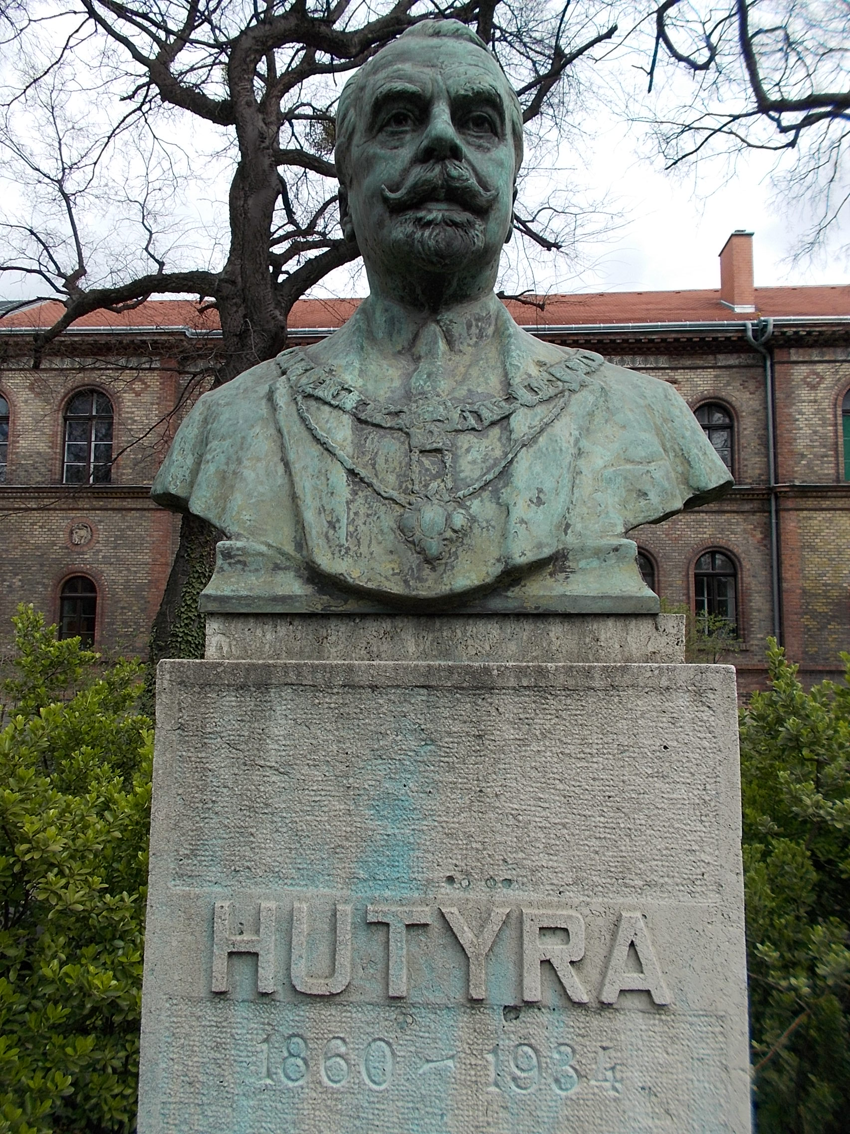 Bust of Ferenc Hutÿra in the sculpture park of the University of Veterinary Science (UVS). - 2 István Street, Budapest District VII.